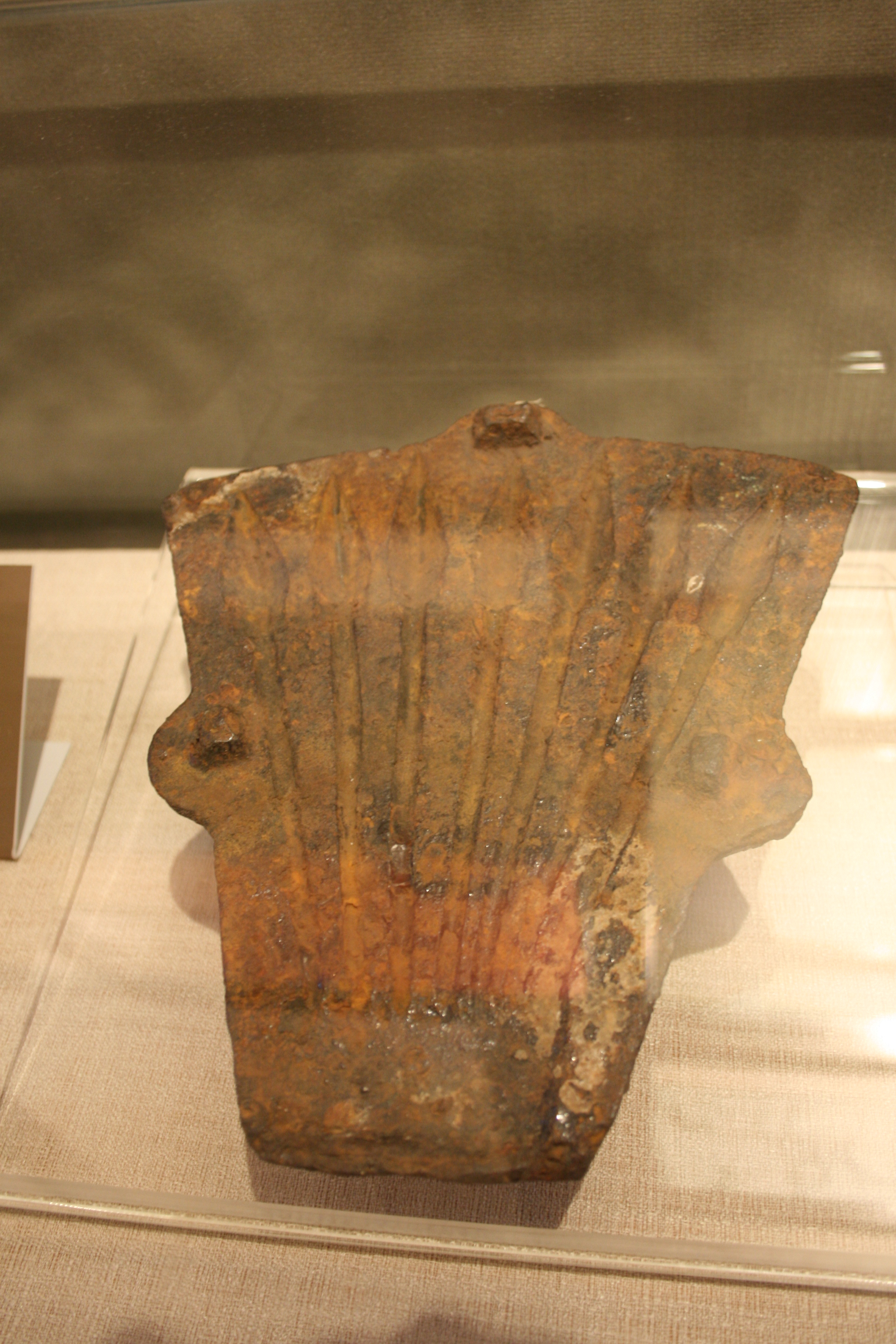 3K arrow moulds